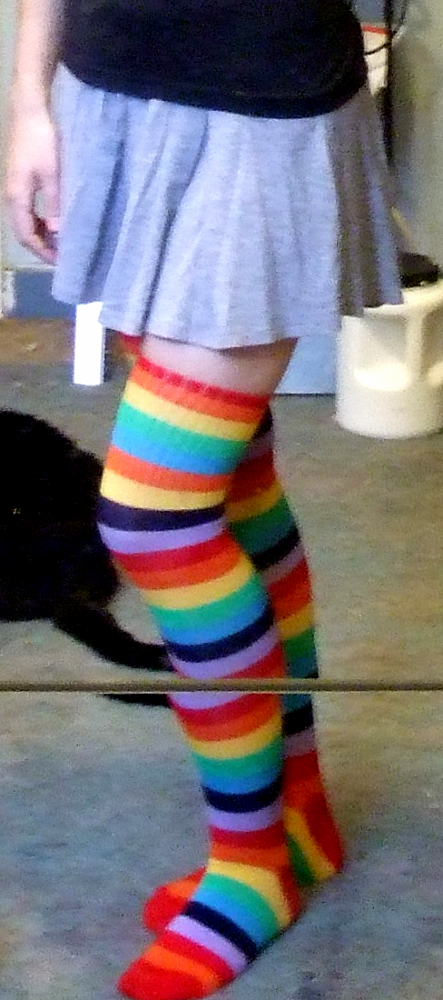 Rainbow socks